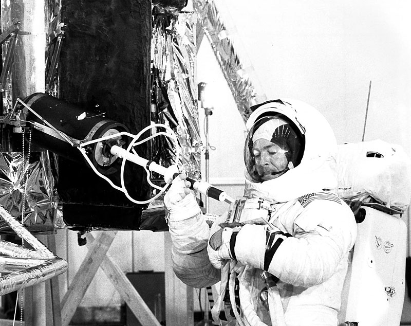 Edgar Mitchell practices removing the fuel element from the RTG cask on an LM mockup.